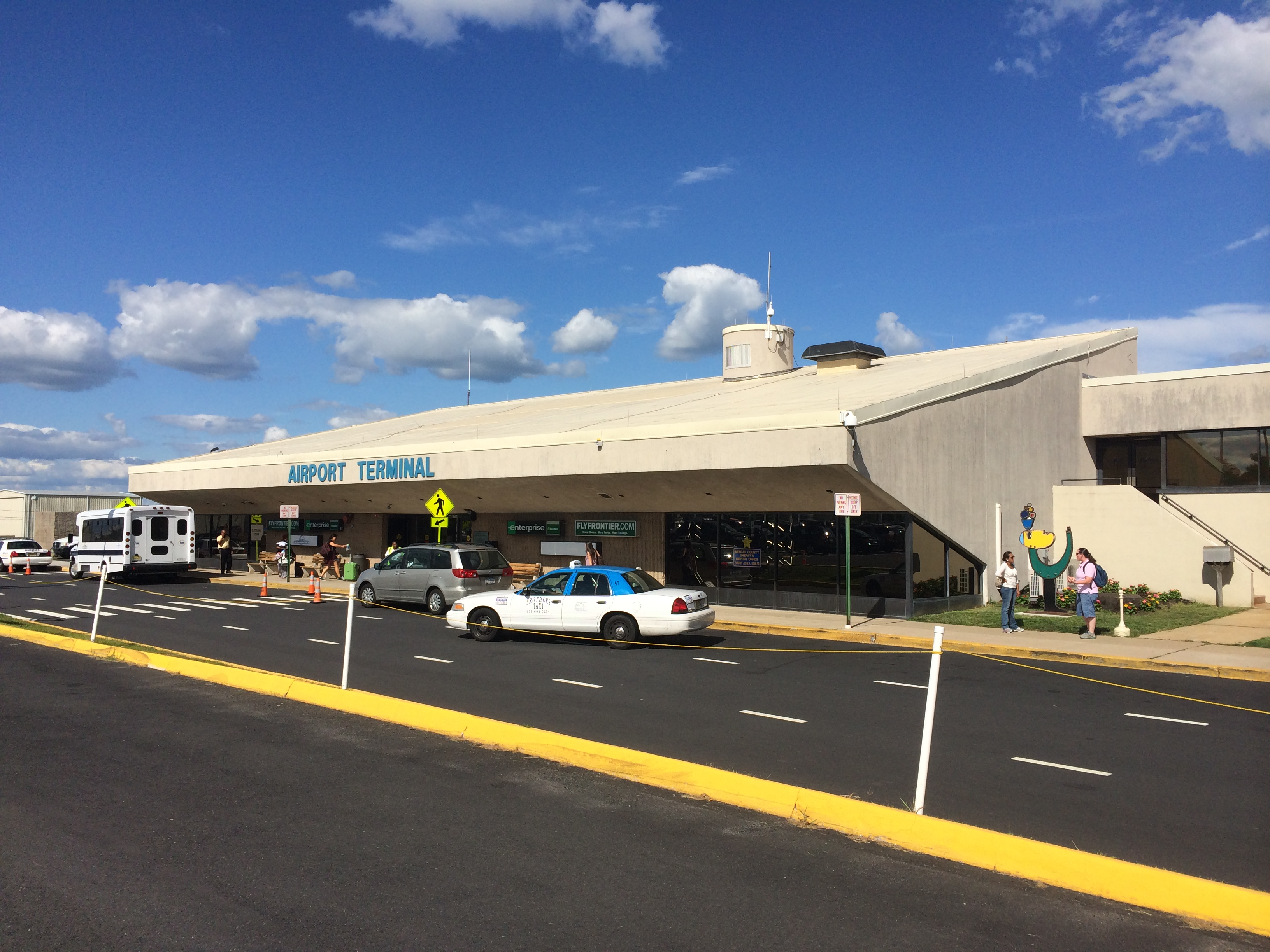 Main Passenger Terminal at Trenton-Mercer Airport